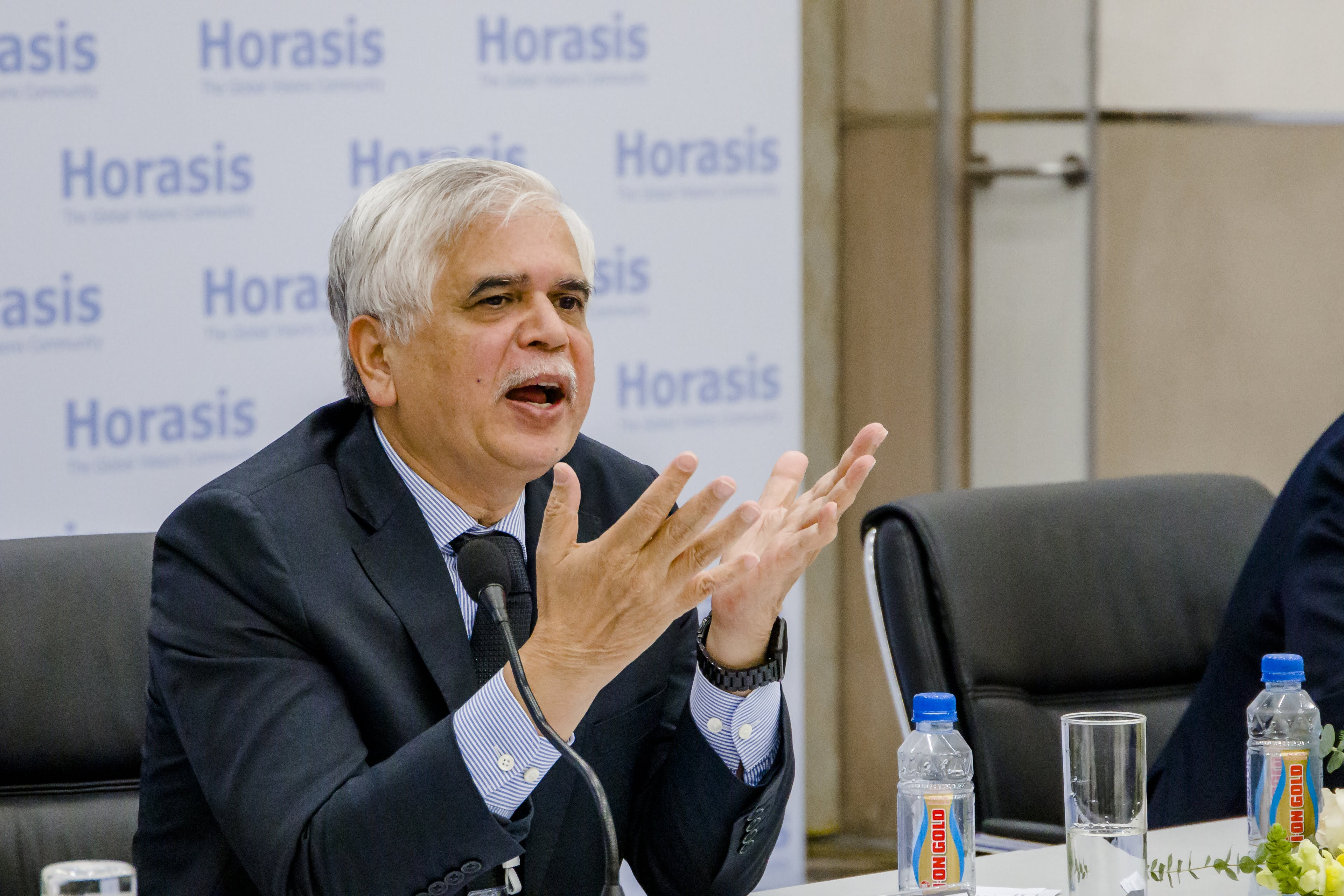 Richard Rekhy, Member of the Board, KPMG, UAE